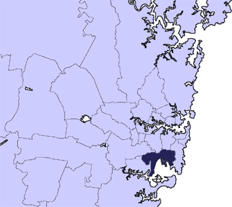 Locator Map Bayside Council LGA Sydney 2016.png Based on Image:Rockdale_lga_sydney.png by User:JPD.